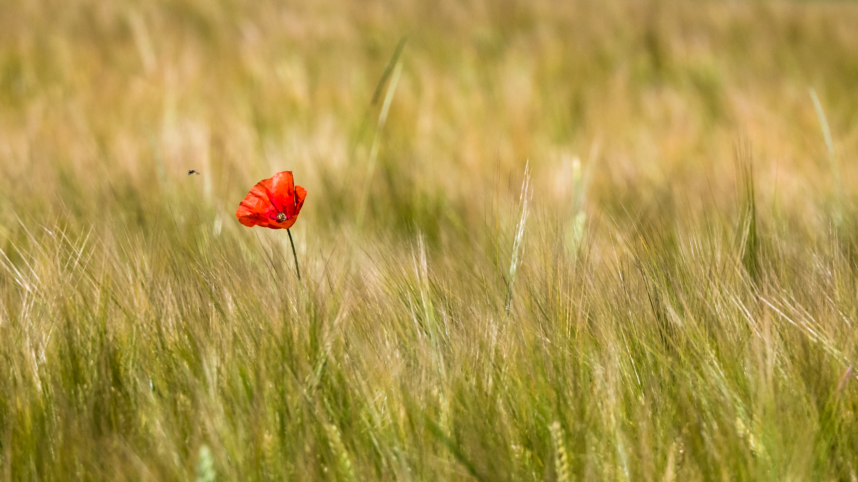 Common poppy on a cereal field. Vitoria-Gasteiz, Álava, Basque Country, Spain